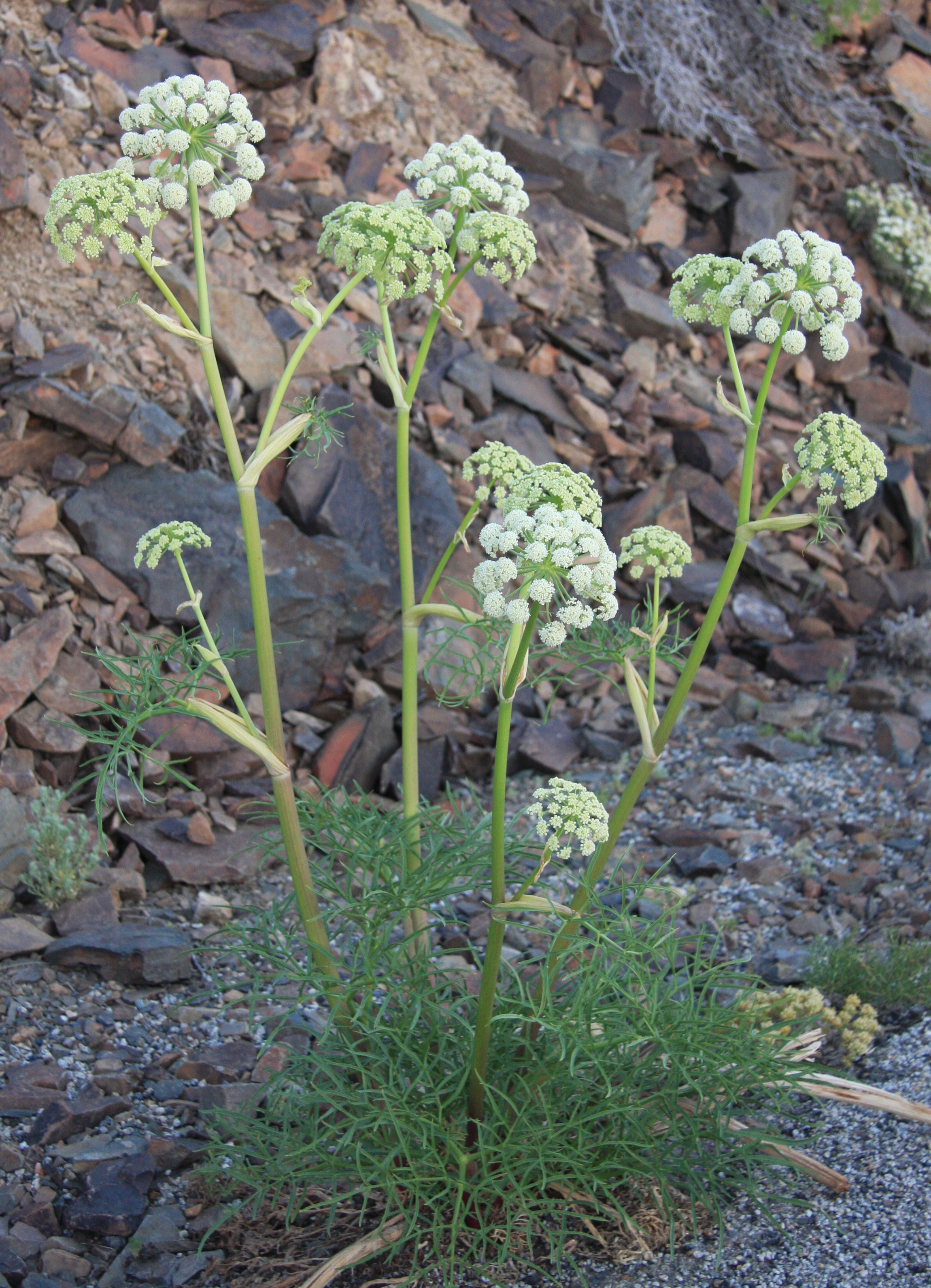 Sierra angelica (Angelica lineariloba) — with many flowerheads and finely divided linear leaves. Along road to Shulman Grove in the Ancient Bristlecone Pine Forest, of the Inyo National Forest, in the White Mountains, eastern California.